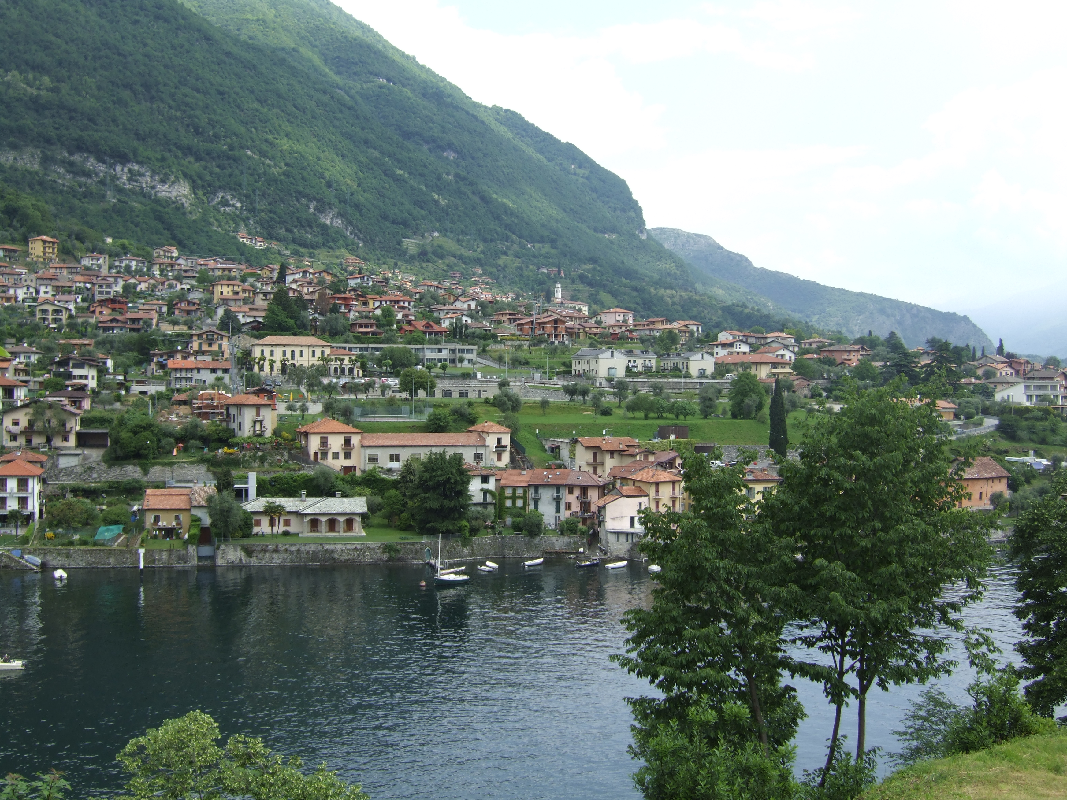 Ossuccio (Italy)-Hamlet of Spurano